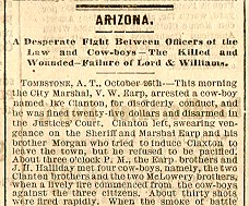 Newspaper article from 1881, pertaining to the Gunfight at the O.K. CorralText:A Desperate Fight Between Officers of the Law and Cow-Boys--The Killed and Wounded--Failure of Lord & WilliamsTombstone, A.T., October 26th -- This morning, the City Marshall, V. W. Earp, arrested a cow-boy named Ike Clanton, for disorderly conduct, and he was fined twenty-five dollars and disarmed in the Justices' Court. Clanton left, swearing vengeance on the Sheriff and Marshall Earp and his brother Morgan who tried to induce Clanton to leave the town, but he refused to be pacified. About three o'clock P.M., the Earp brothers and J.H. Halliday met four cow-boys, namely the two Clanton brothers and the two McLowery brothers, when a lively fire commenced from the cow-boys against the three citizens. About thirty shots were fired rapidly. When the smoke of battle...(image cuts off here)